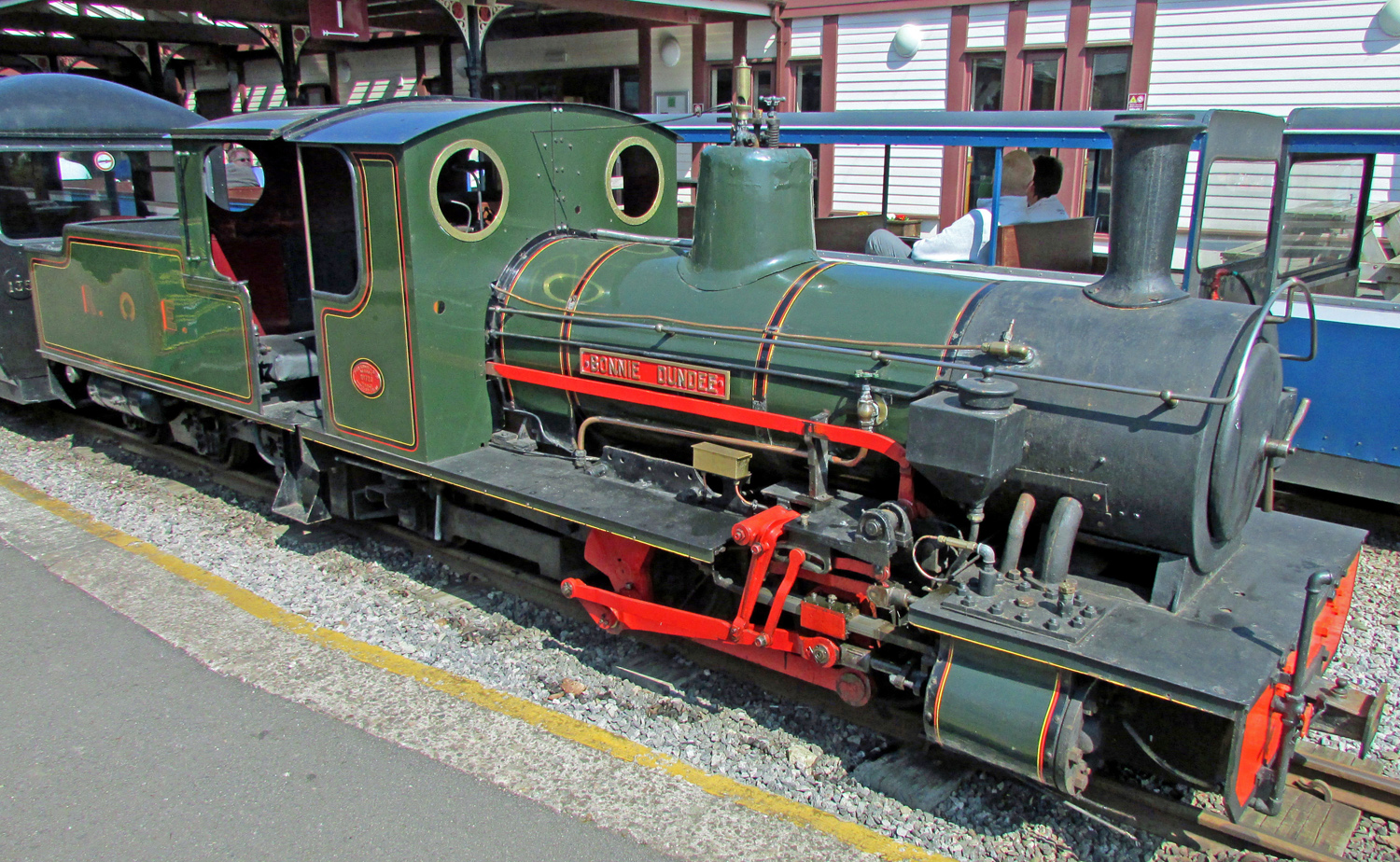 Ravenglass & Eskdale Locomotive No. 11 "Bonnie Dundee", ex Dundee Gas Works, displayed at Ravenglass station in 2015